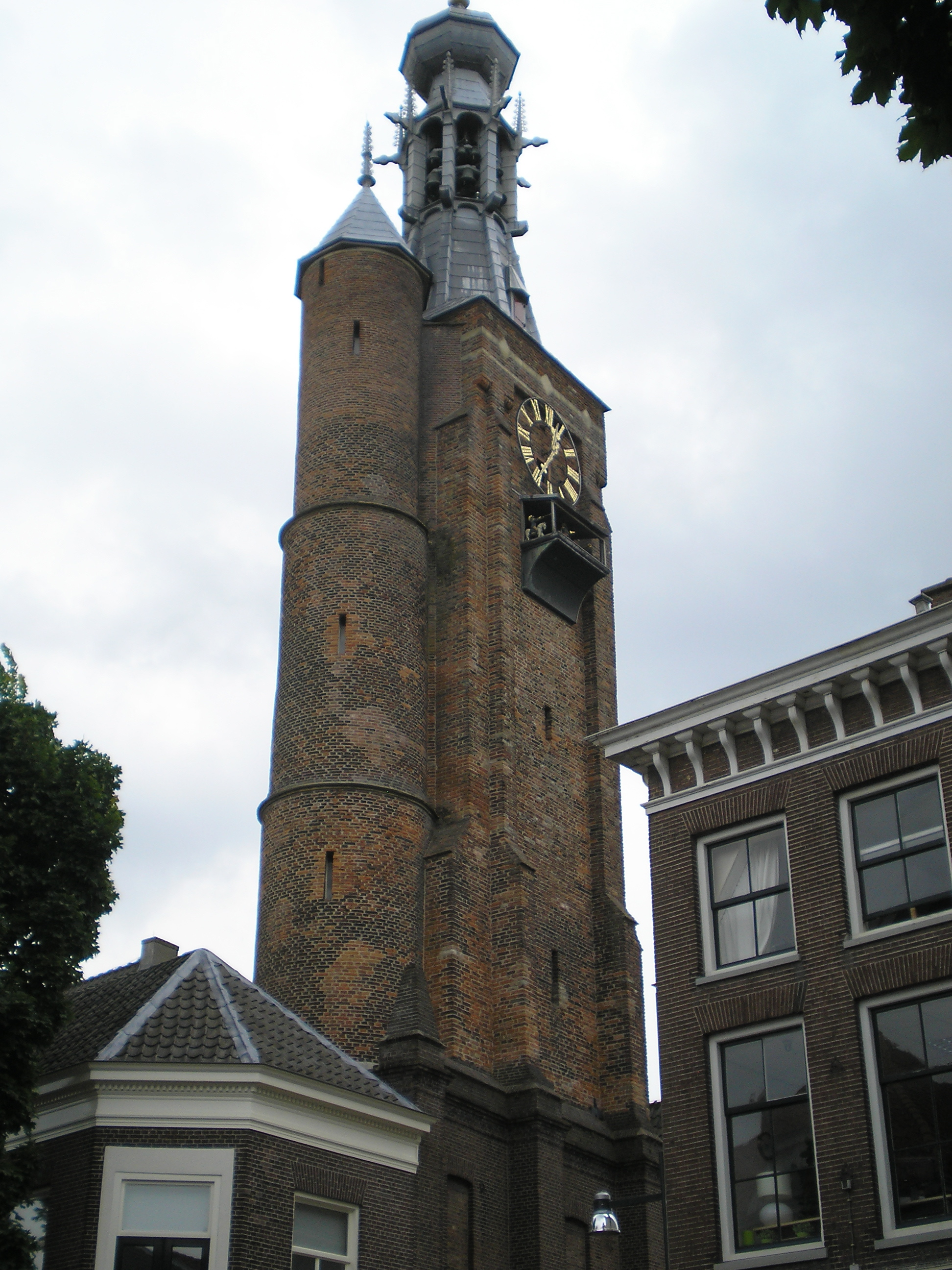 Gasthuiskapel the Gasthuisstraat 34 in Zaltbommel in the Netherlands